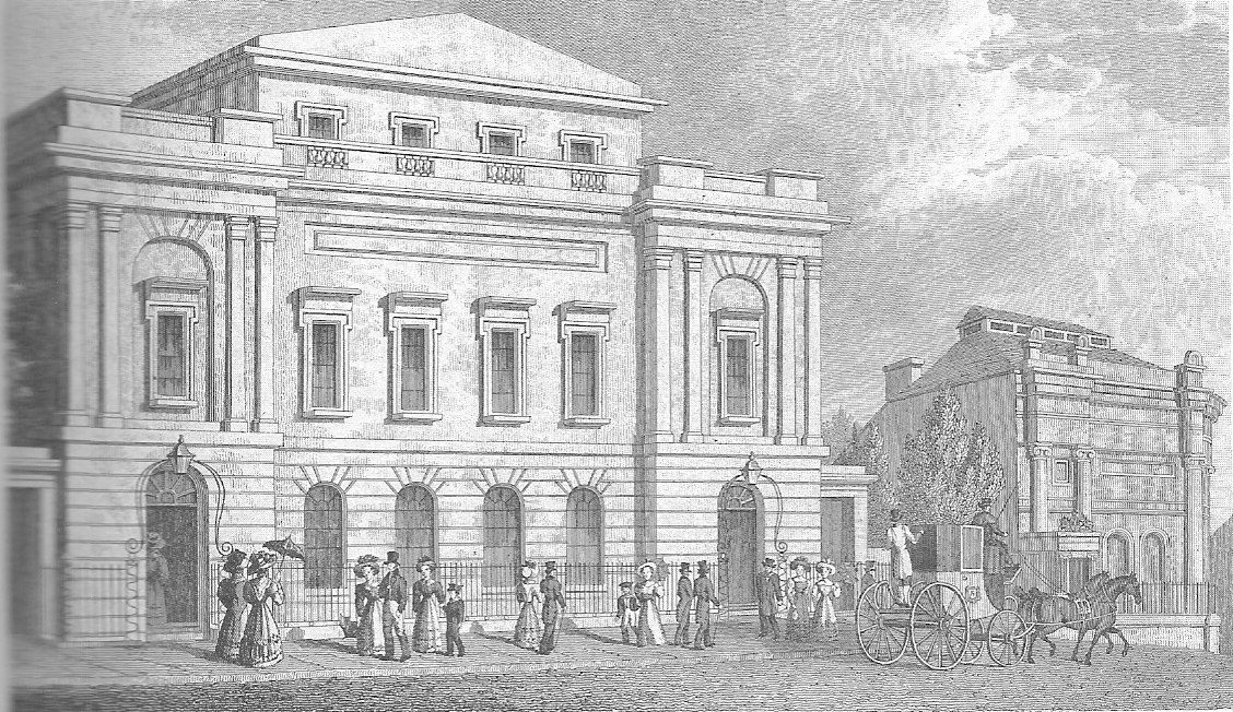 The Music Hall in Sheffield, on Surrey Street, the main concert and meeting hall and venue for art exhibitions in the city during much of the 19th century. The medical school can be seen on the right of the image.